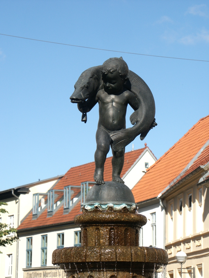 Hechtbrunnen in Teterow, sculpted by Wilhelm Wandschneider.